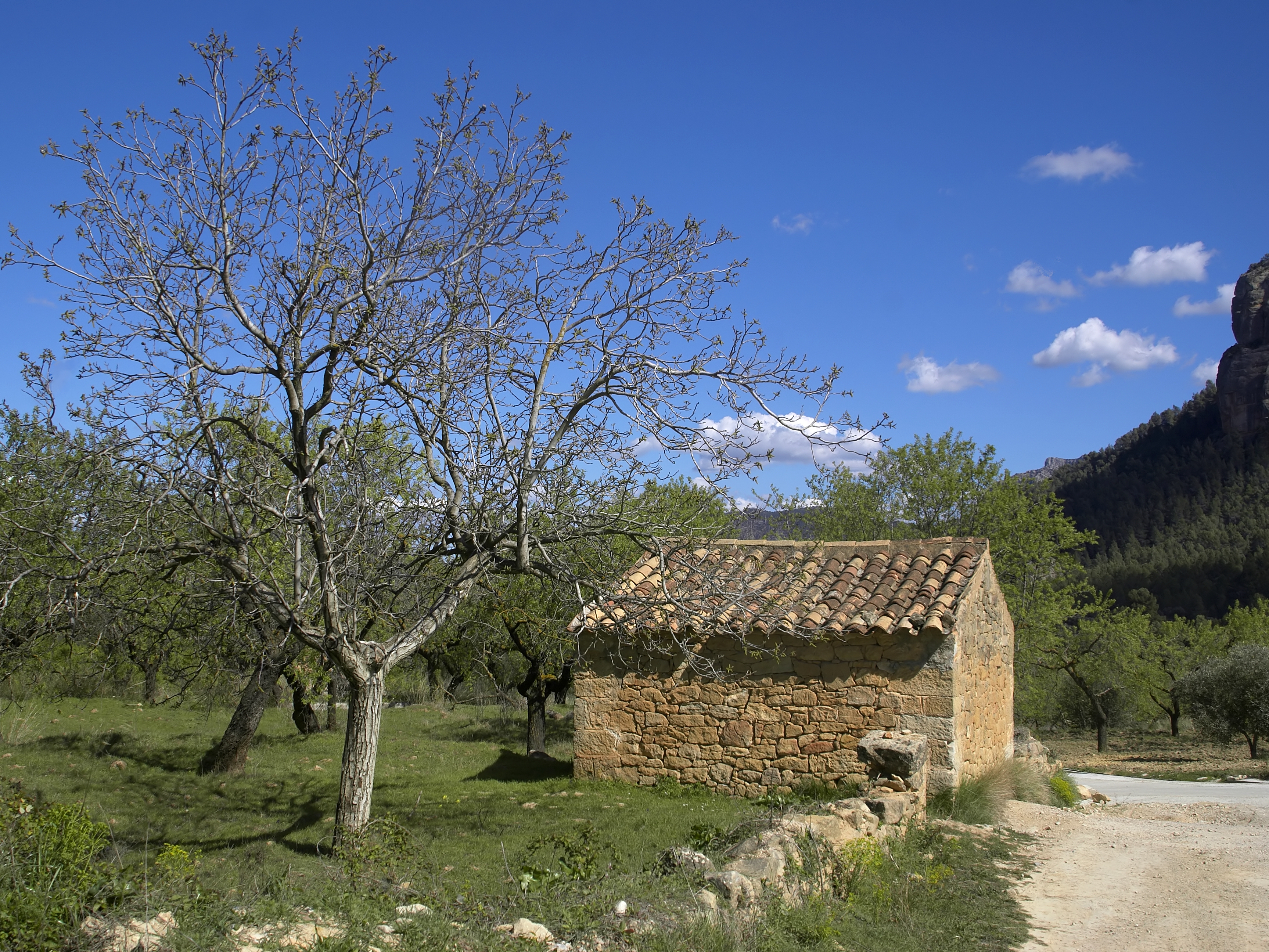 Shed near to the old Tortosa-Valdezafán railway in Horta de Sant Joan, Catalonia, Spain.